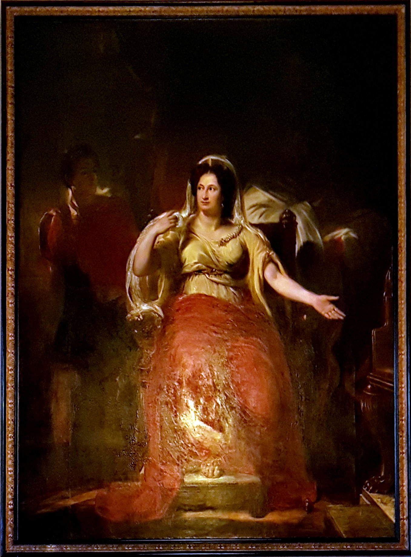 Portrait of Dutch actress Johanna Cornelia Ziezenis-Wattier (1762-1827) as Agrippina in Racine's Britannicus by an unknown painter. This portrait hangs in the Royal Foyer of Stadsschouwburg, Amsterdam's municipal theatre on Leidseplein, Amsterdam, the Netherlands.